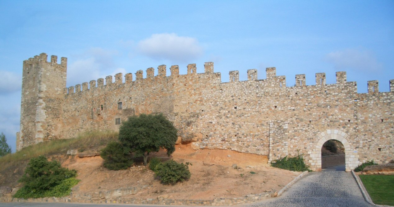 Picture of Montblanc Rampart, Catalonia, Europe